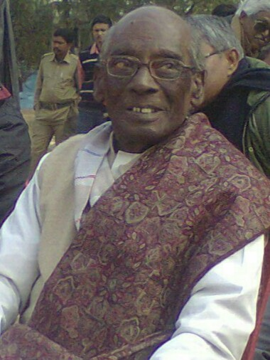 In an open meeting in his area